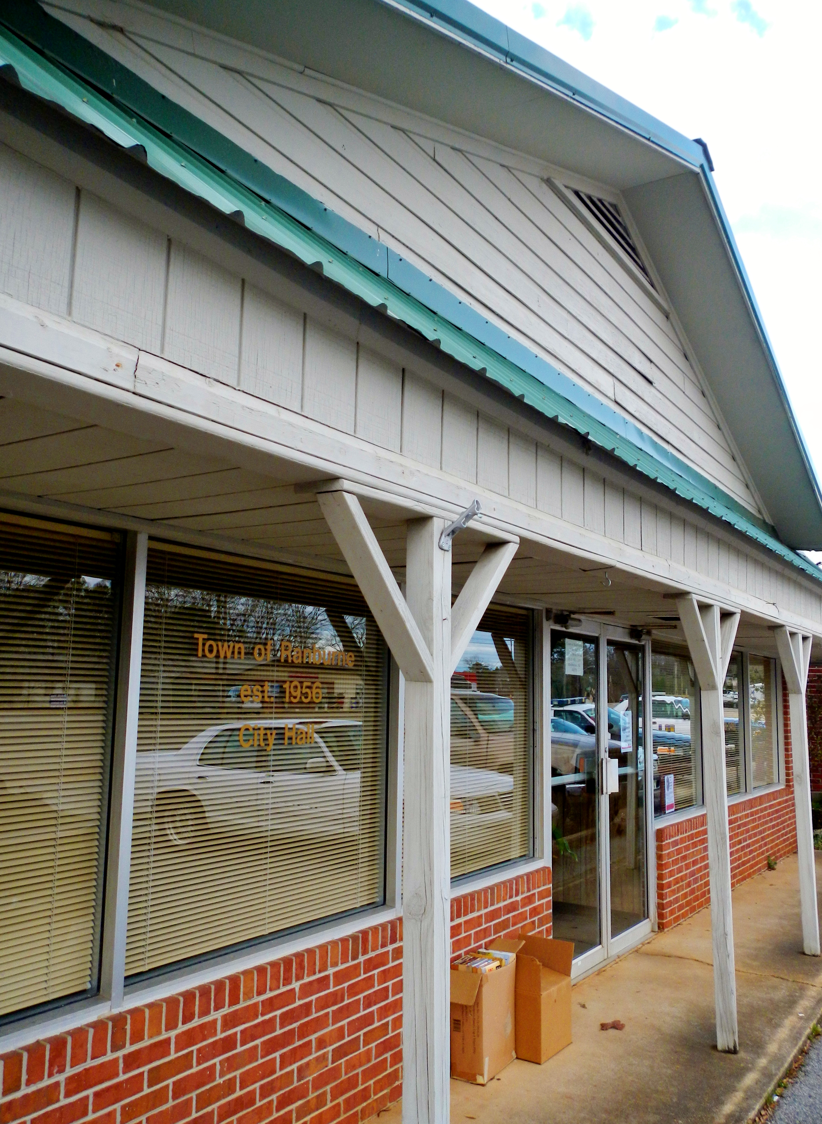 This is a photograph of the town hall in Ranburne, Alabama.